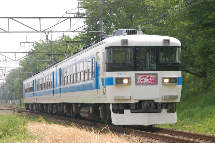 A Chichibu railway 3000 series EMU on a Shibazakura express service